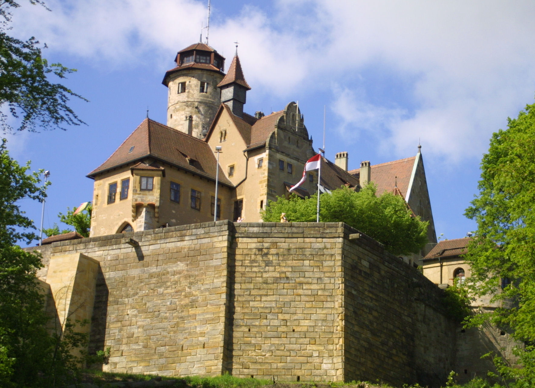 Altenburg (castle in Bamberg, Germany)